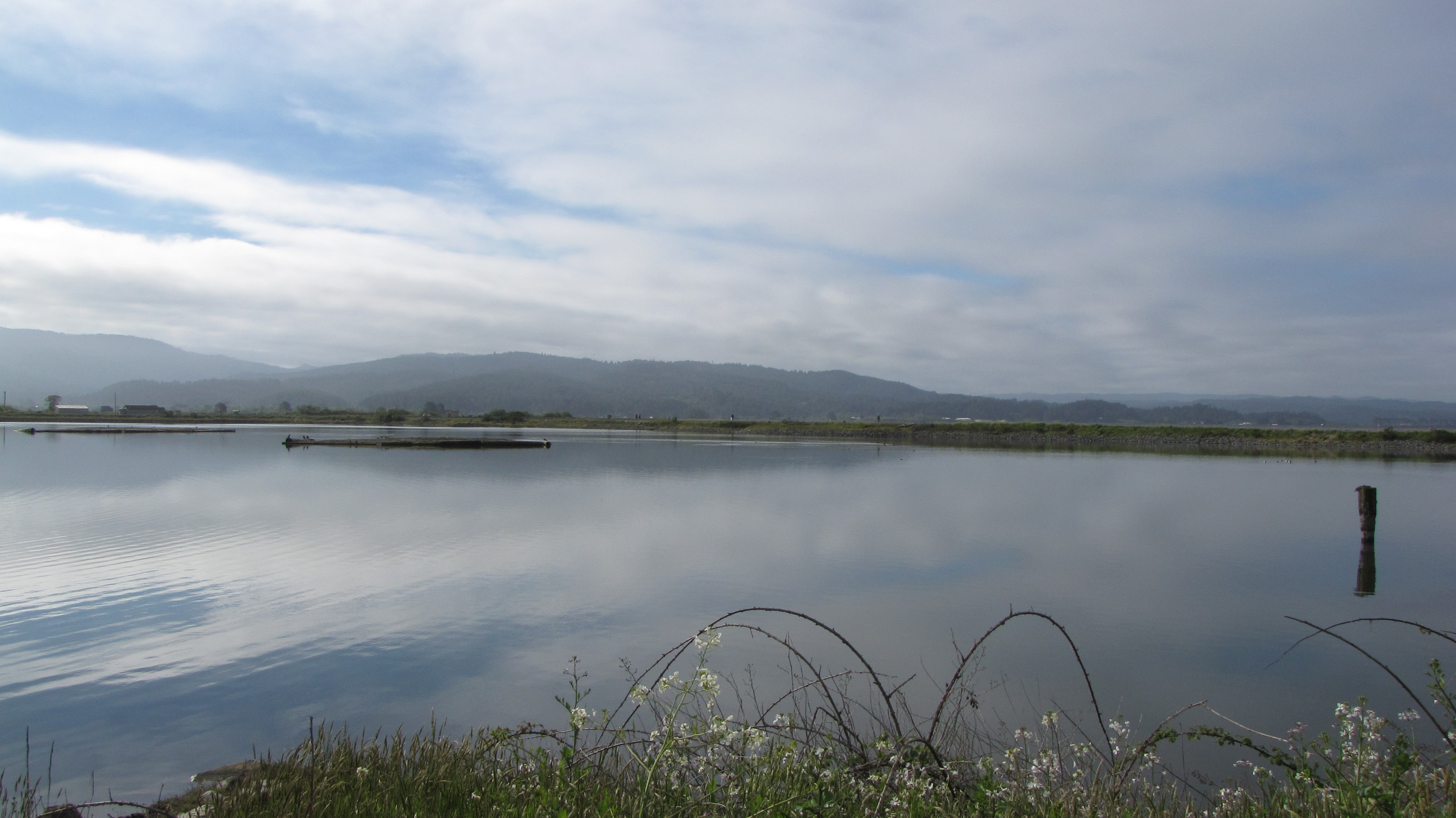 Looking east by southeast across southern end of marsh.